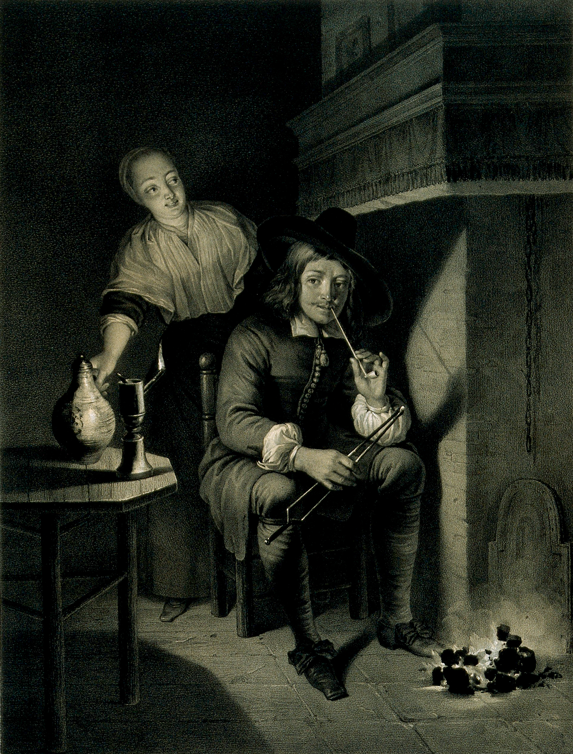 Lithograph